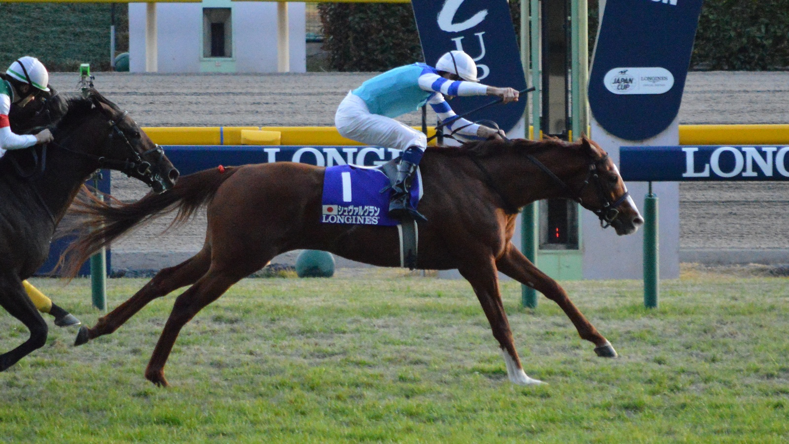 Japanese race horse Cheval Grand at Tokyo racecourse. Tokyo (JPN) 26 Nov 2017Japan Cup (Grade 1) (3yo+) (Turf) 1m4f Firm RankHorse NameOddsAgeWgtJockeyTrainer1stCheval Grand (JPN)12/1H59-0James Hugh BowmanYasuo Tomomichi2ndRey de Oro (JPN)28/10C38-9Christophe-Patrice LemaireKazuo FujisawaOthers are omitted. (17 horses entered in a race.)